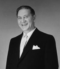 Photograph of the Finnish actor Oiva Sala (1900–1980).